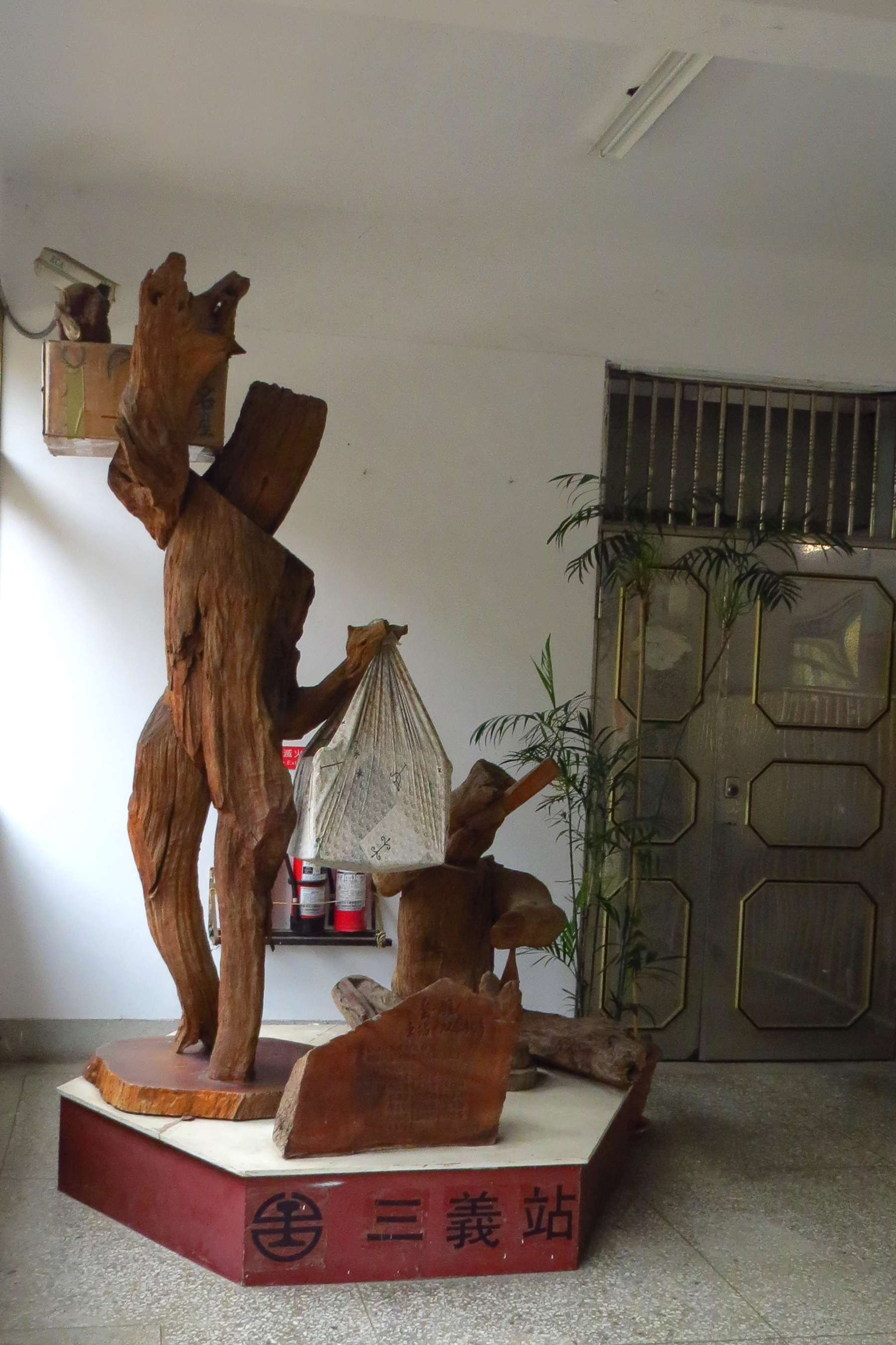 A wood sculpture inside Sanyi Station, Miaoli County, Taiwan.